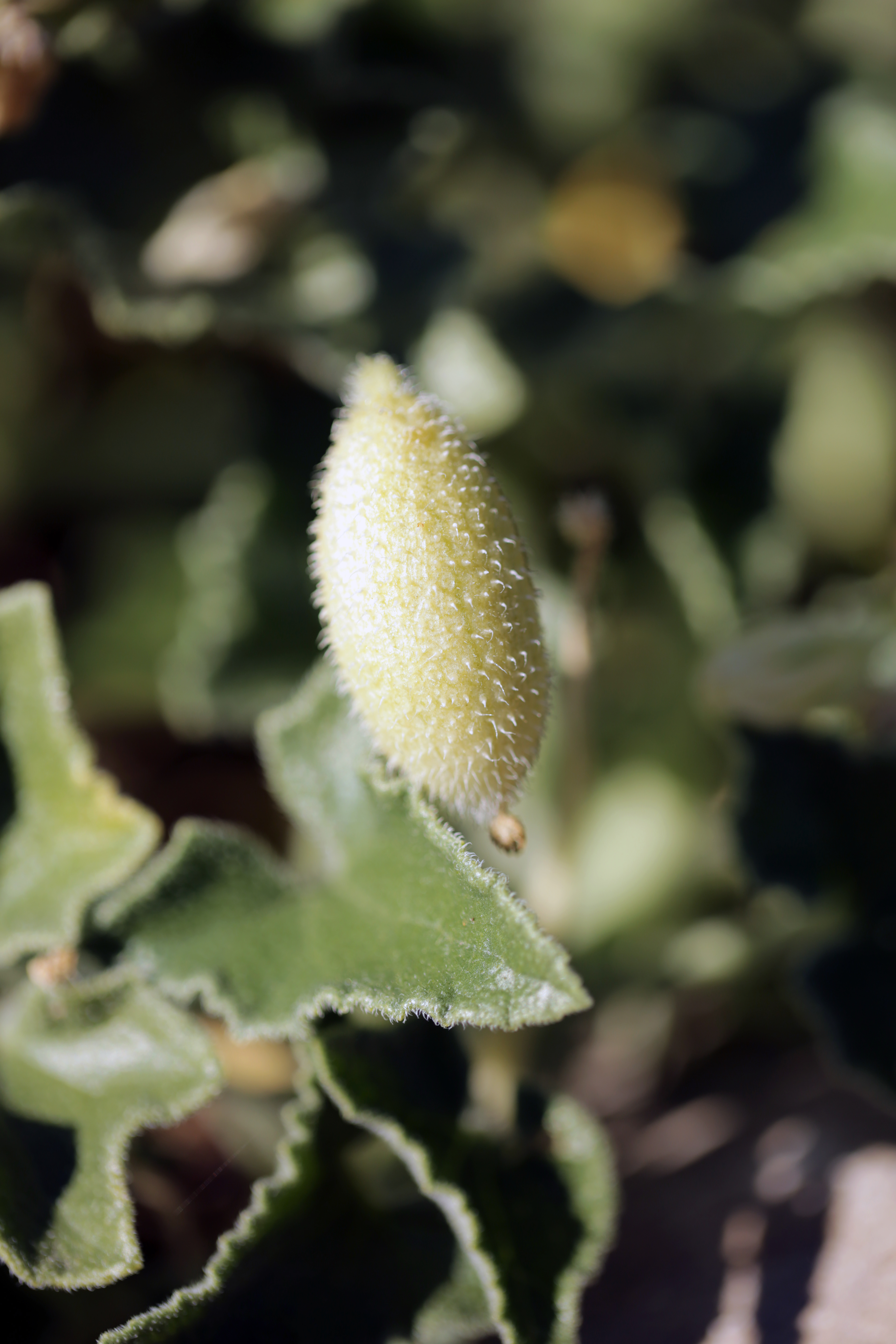 Ripe squirting cucumber, ready to explode